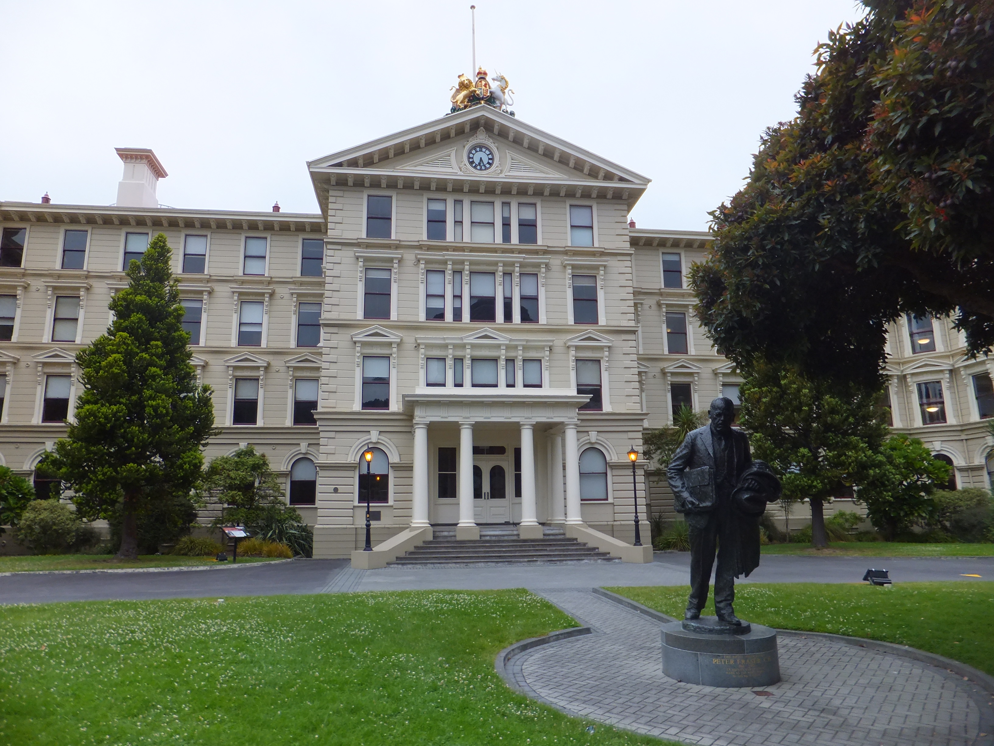 Entry to Old Government Buildings, Wellington, New Zealand